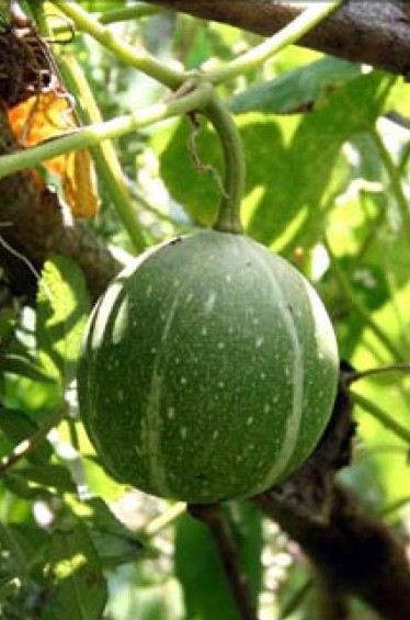 Cucurbita okeechobeensis ssp. okeechobeensis — Okeechobee gourd. Endemic plant species of of Florida. Federally listed Endangered flora of the United States. Credits USFWS photo, no copyright